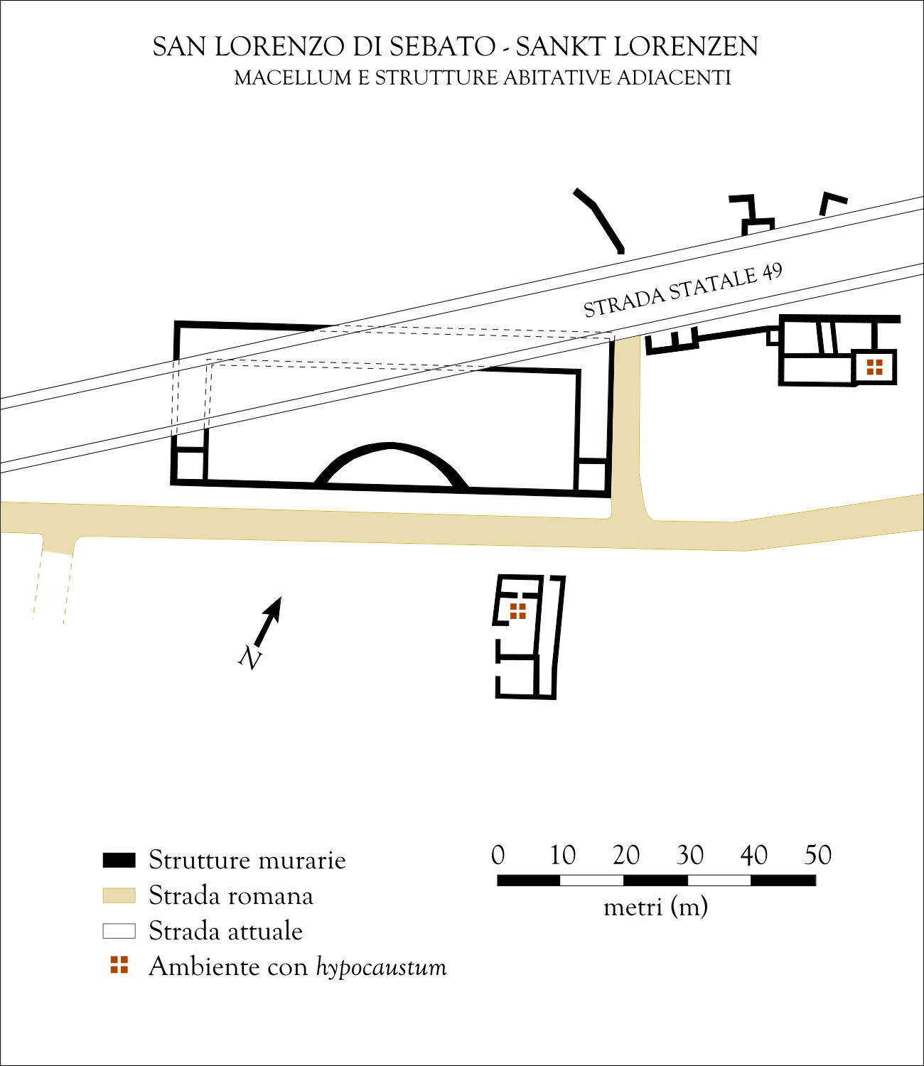 Plan of the market building (macellum) of Sebatum (San Lorenzo di Sebato/Sankt Lorenzen, South Tirol, Italy)